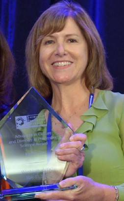 Society for Prevention Research president Dr. Leslie Leve presents the 2018 Advances in Culture and Diversity in Prevention Science Award in Washington, D.C., at the recent 26th annual meeting of the Society for Prevention Research.